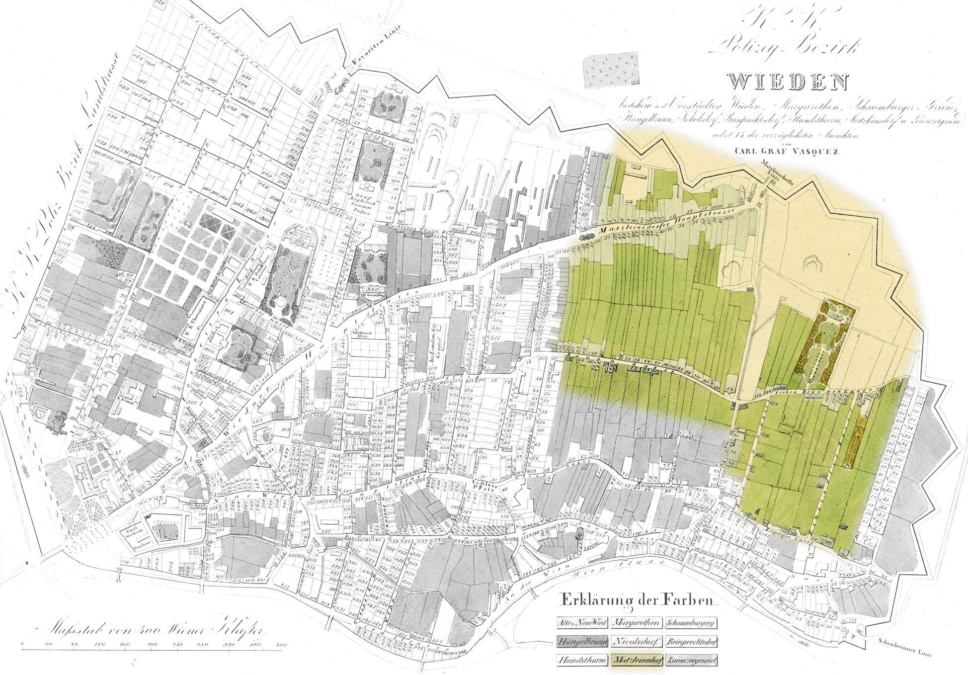 Map of Vienna / Matzleinsdorf, approx. 1830